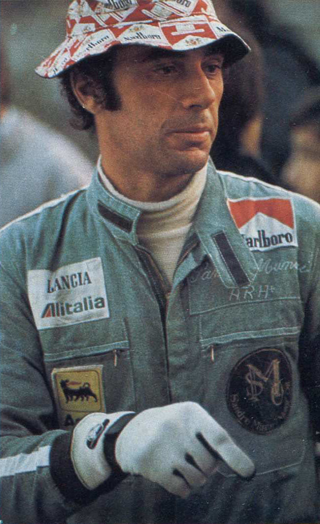 Italian driver Sandro Munari of Lancia Alitalia after his retirement at the 1975 Rallye Sanremo.